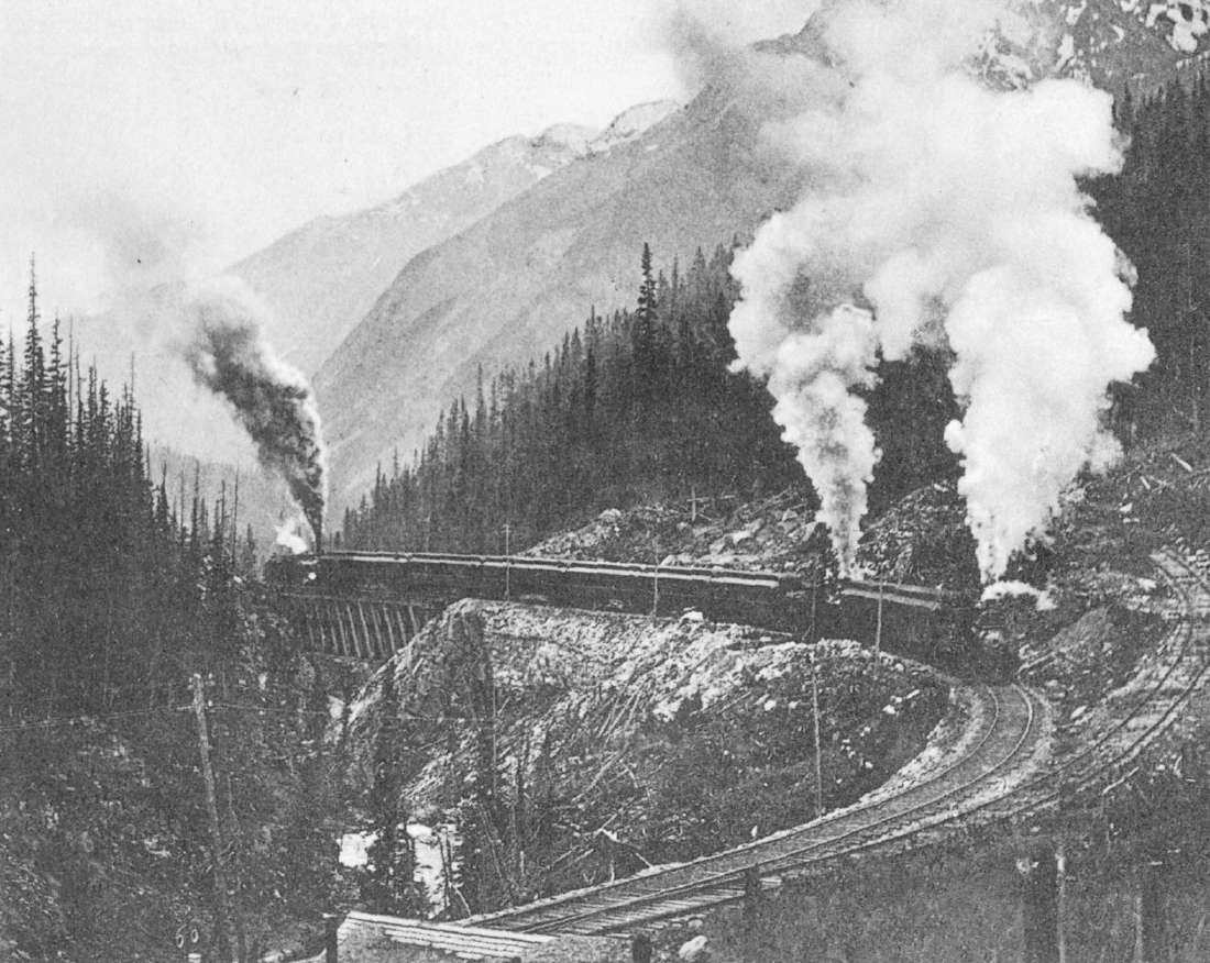 “Big Hill” on the Canadian Pacific Railroad, British Columbia, in 1890. From contemporary newspaper.